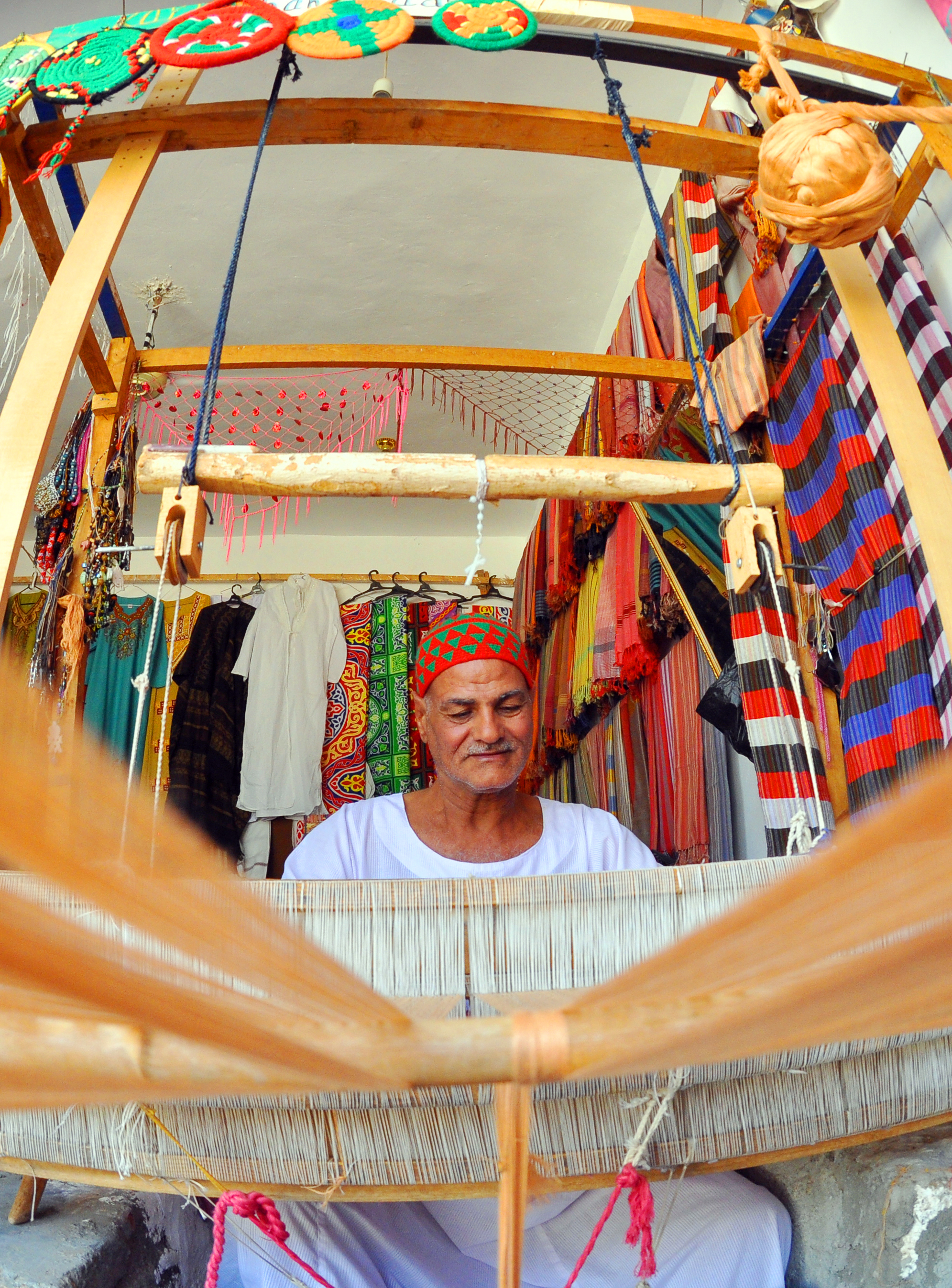 In Aswan, there are many handicrafts, including handmade carpets. This is an image of "African people at work" from Egypt